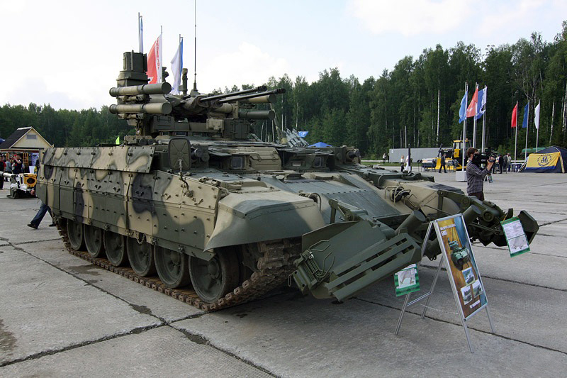 BMPT (Tank Support Fighting Vehicle) by Uralvagonzavod on Russian Expo Arms 2009 in Nizhny Tagil